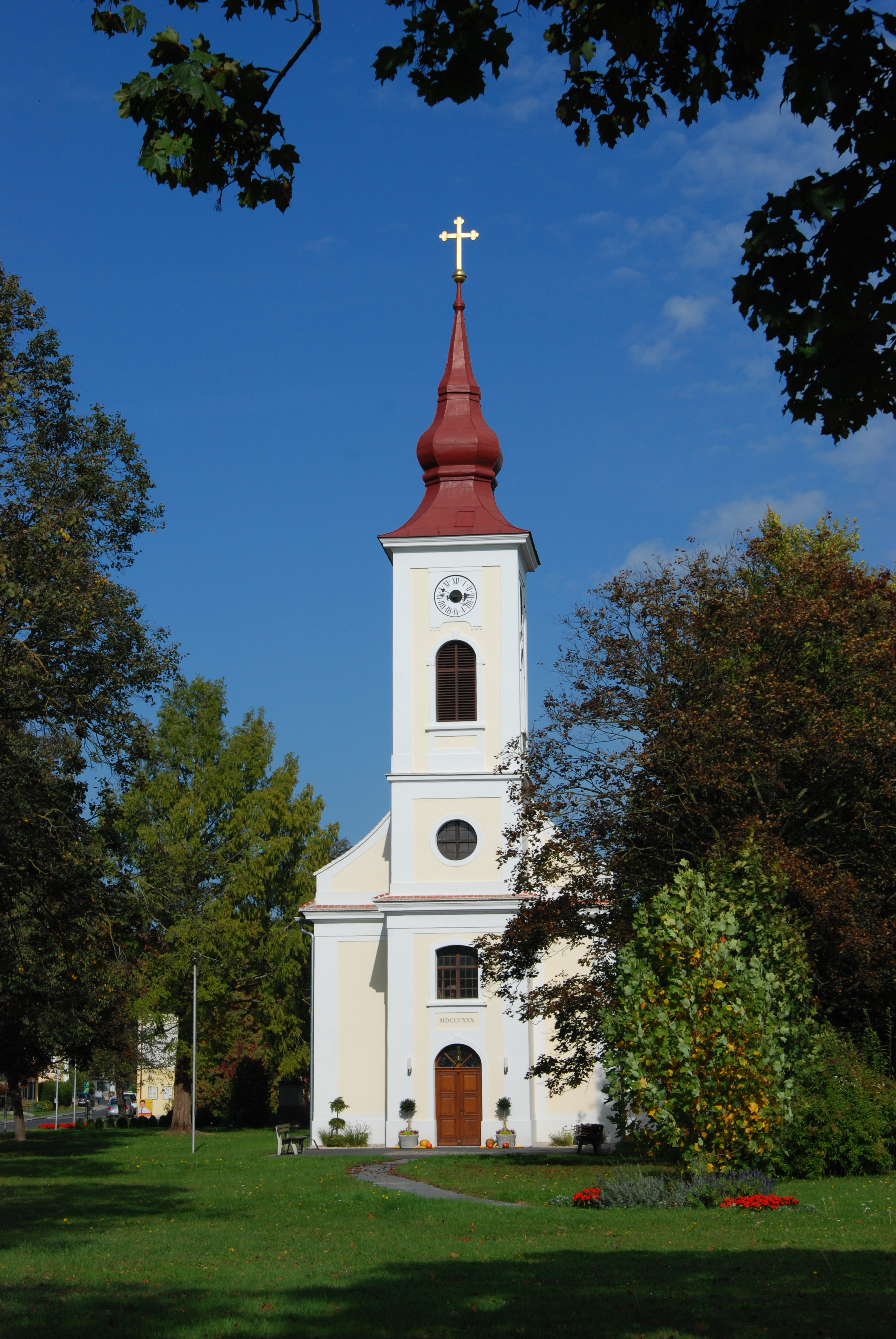 Pfarrkirche Dobersdorf, Rudersdorf commune, Burgenland